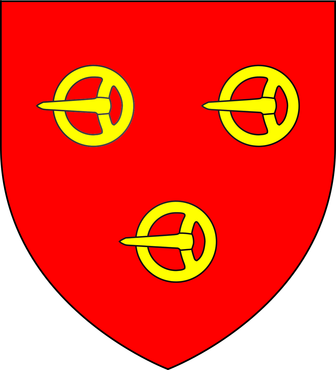 Arms of the Duc d'Aubigny in the Peerage of France, held by Scottish noblemen, in 2015 by the Duke of Richmond and Gordon. Blason: Gules, three buckles or